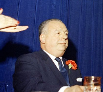 Michael DiSalle cropped from White House Photo of his birthday party at Buckeye Building, Ohio State Fairgrounds, Columbus, Ohio, January 6, 1962.